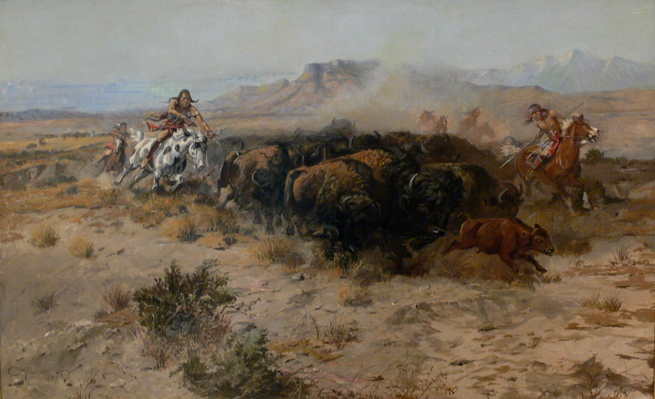 The Buffalo Hunt [No 26]